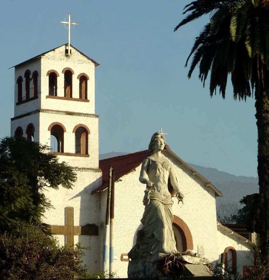 Cristo Obrero Church in Tafí Viejo